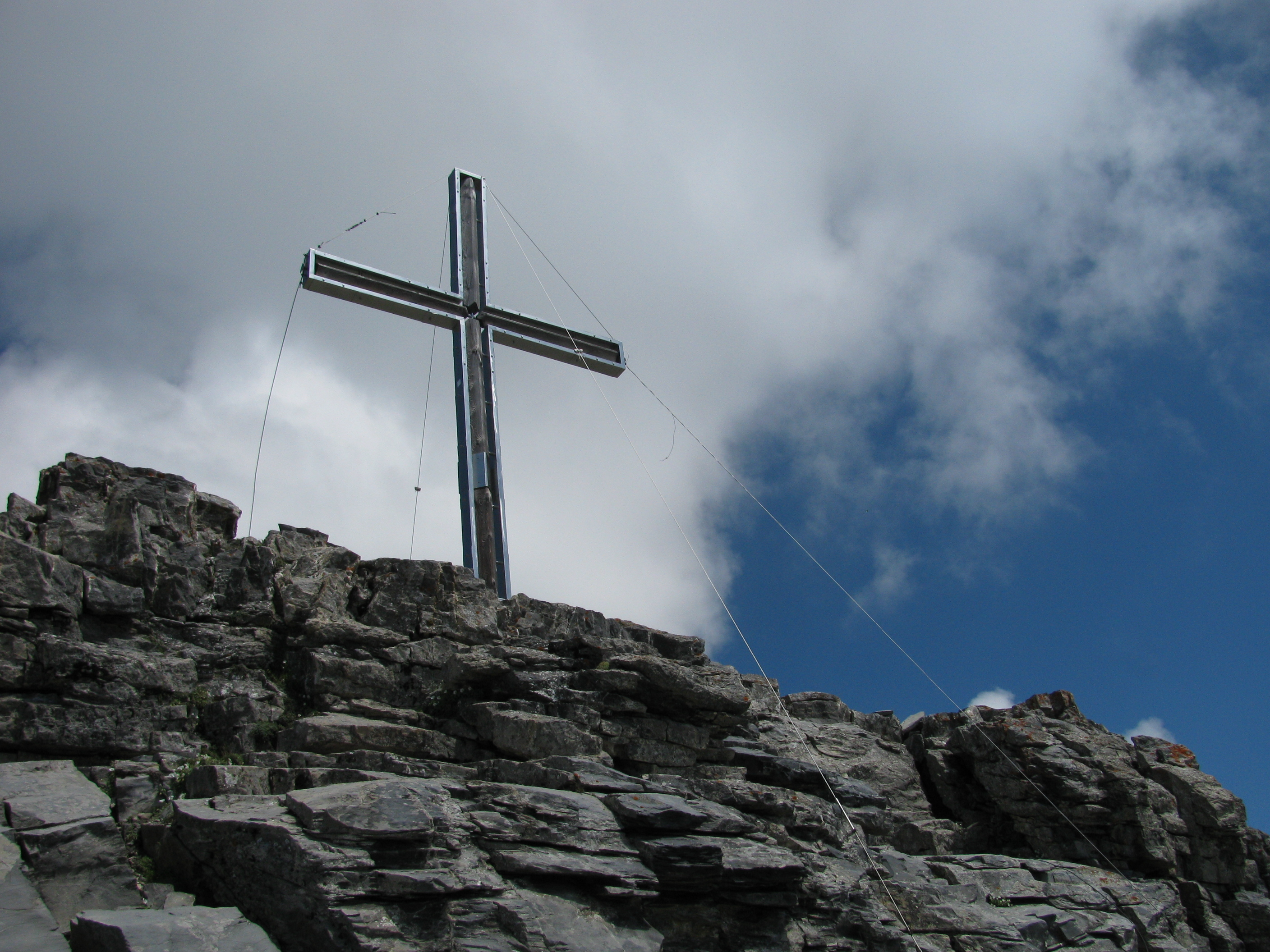 Liechtenstein - Triesen / Switzerland - Graubünden - Fläsch: Falknis (2560 m), summit cross